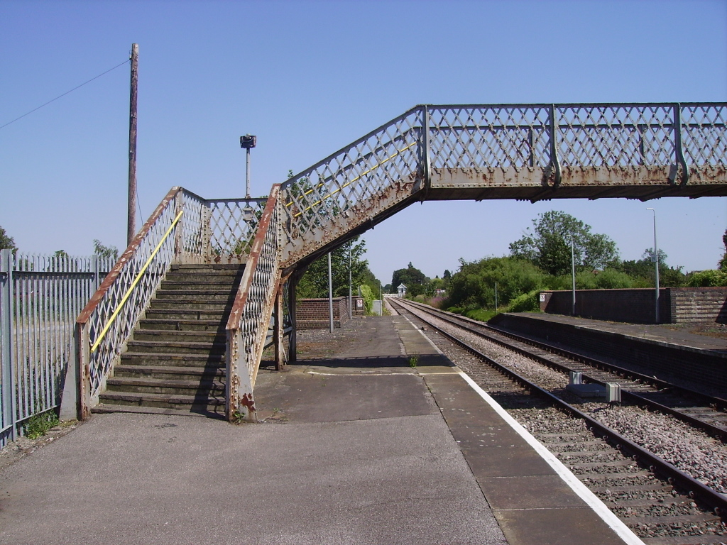 Replacement of Brigg Railway Station.jpg; better quality. Taken by myself, licenced under Creative Commons.